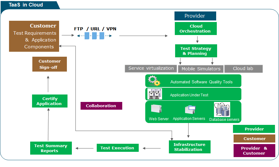 Architecture of the Testing as a Service model.